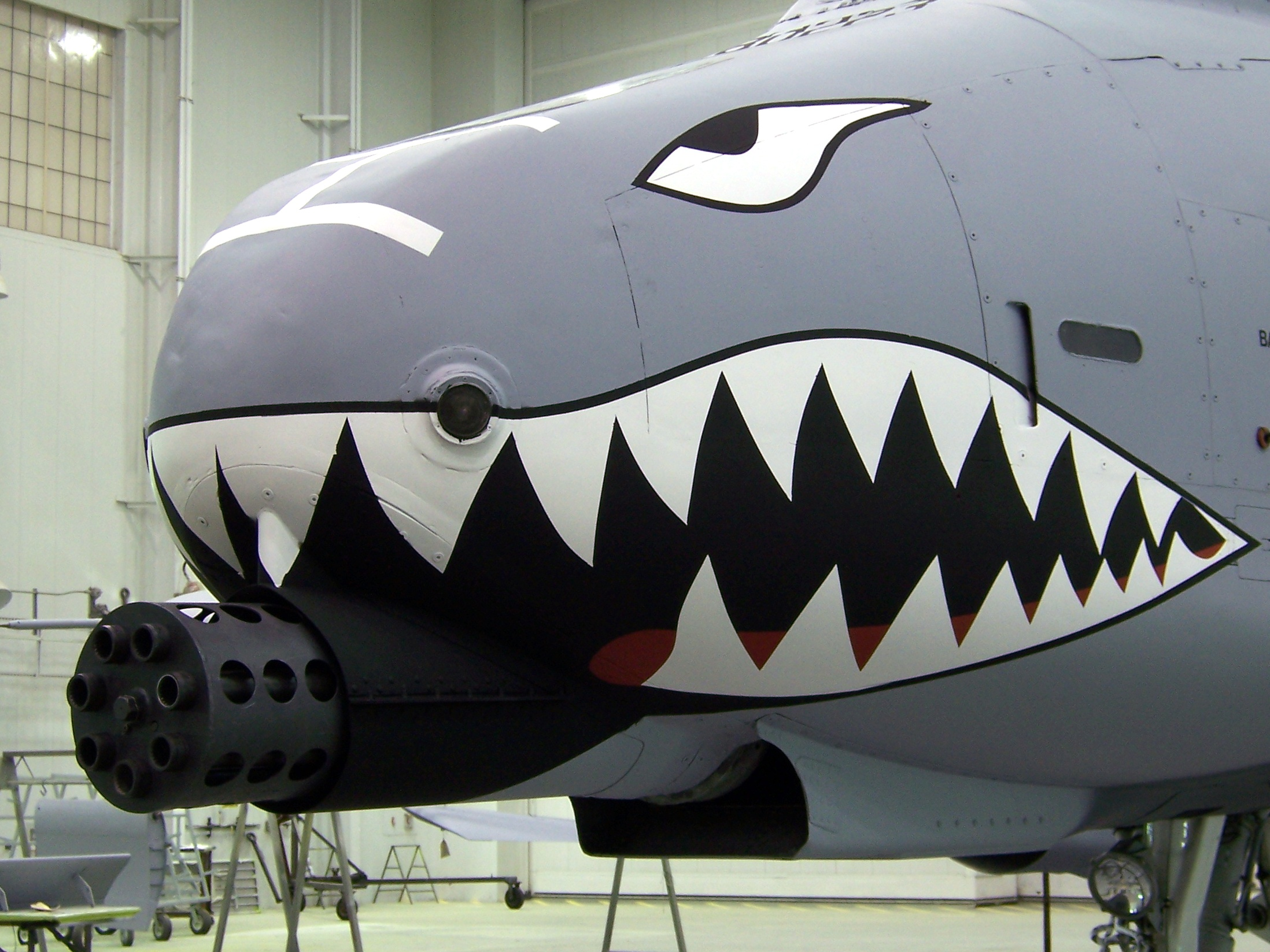 A-10 aircraft showing muzzle of GAU-8 cannon and sharks teeth.